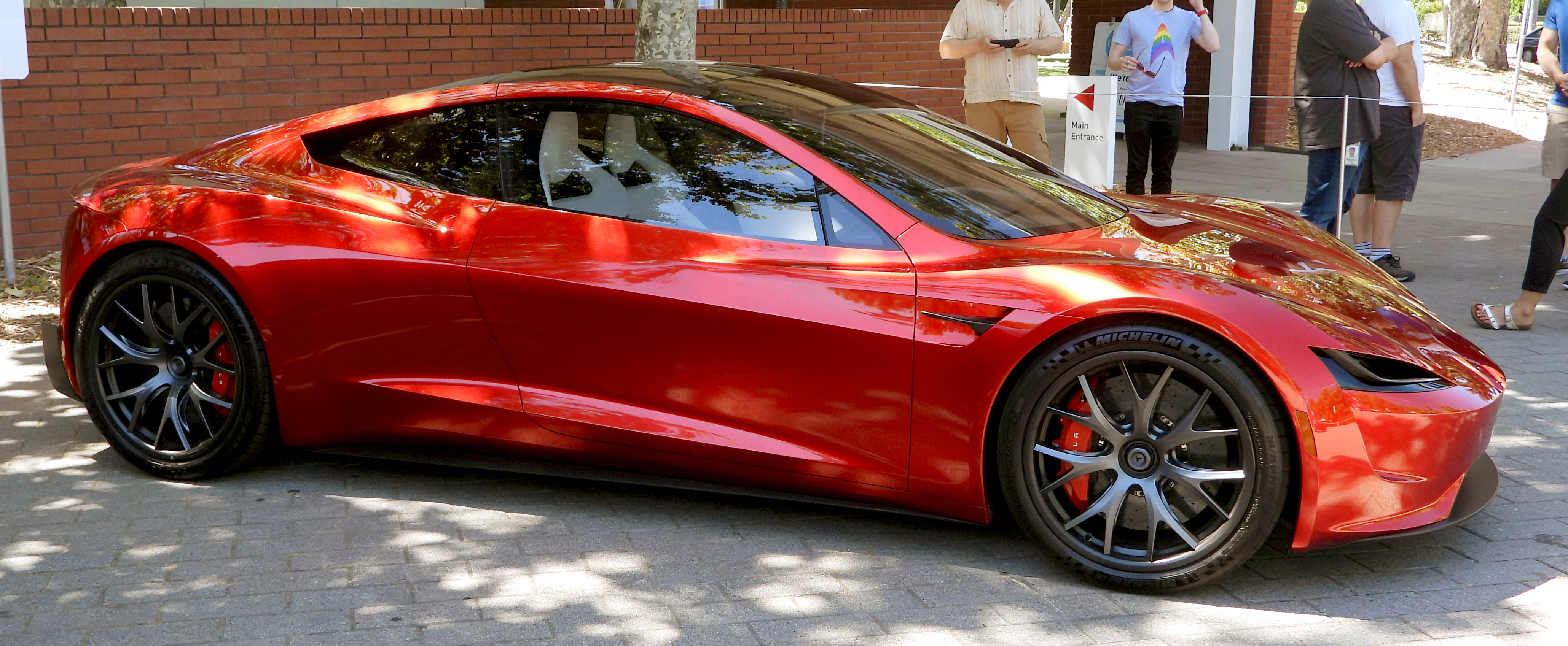 Next-Gen Roadster at the Computer History Museum